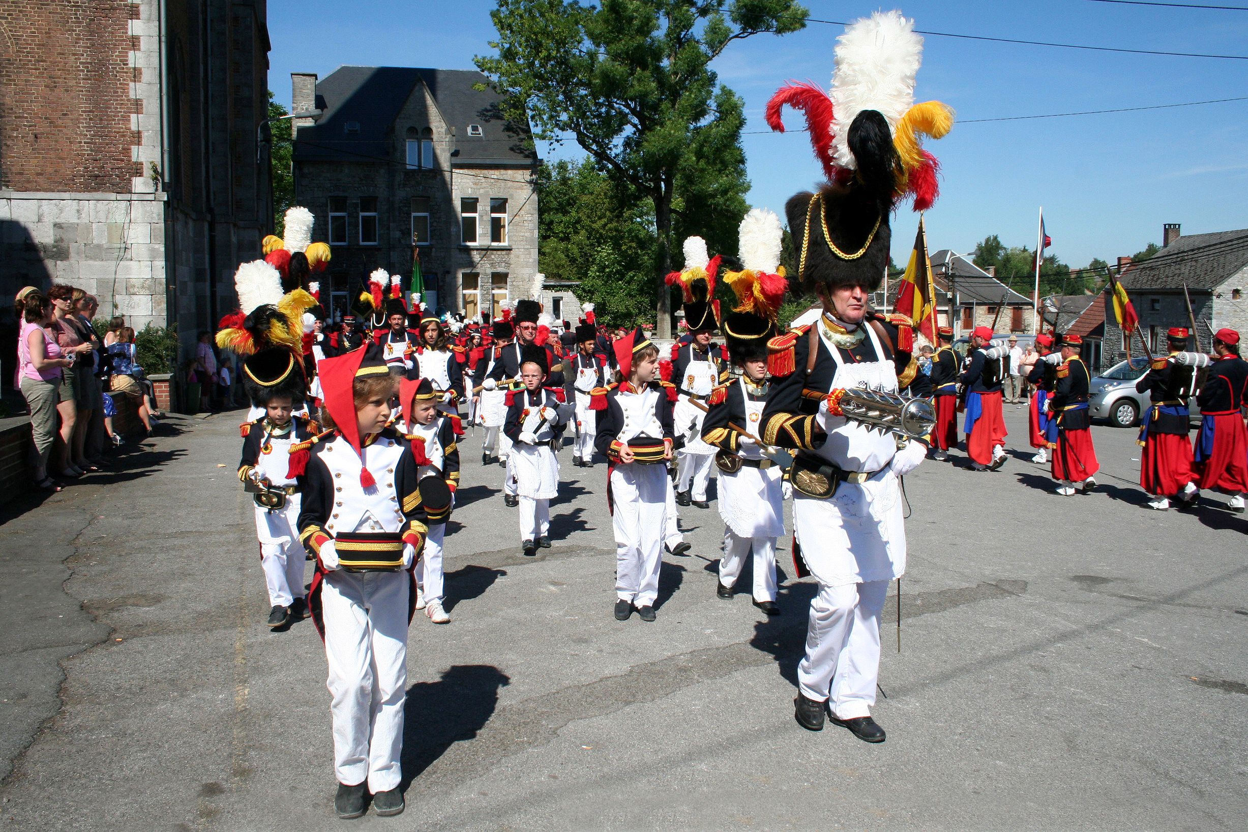 Morialmé (Belgium), the grenadiers and the zouaves of the St. Peter procession.